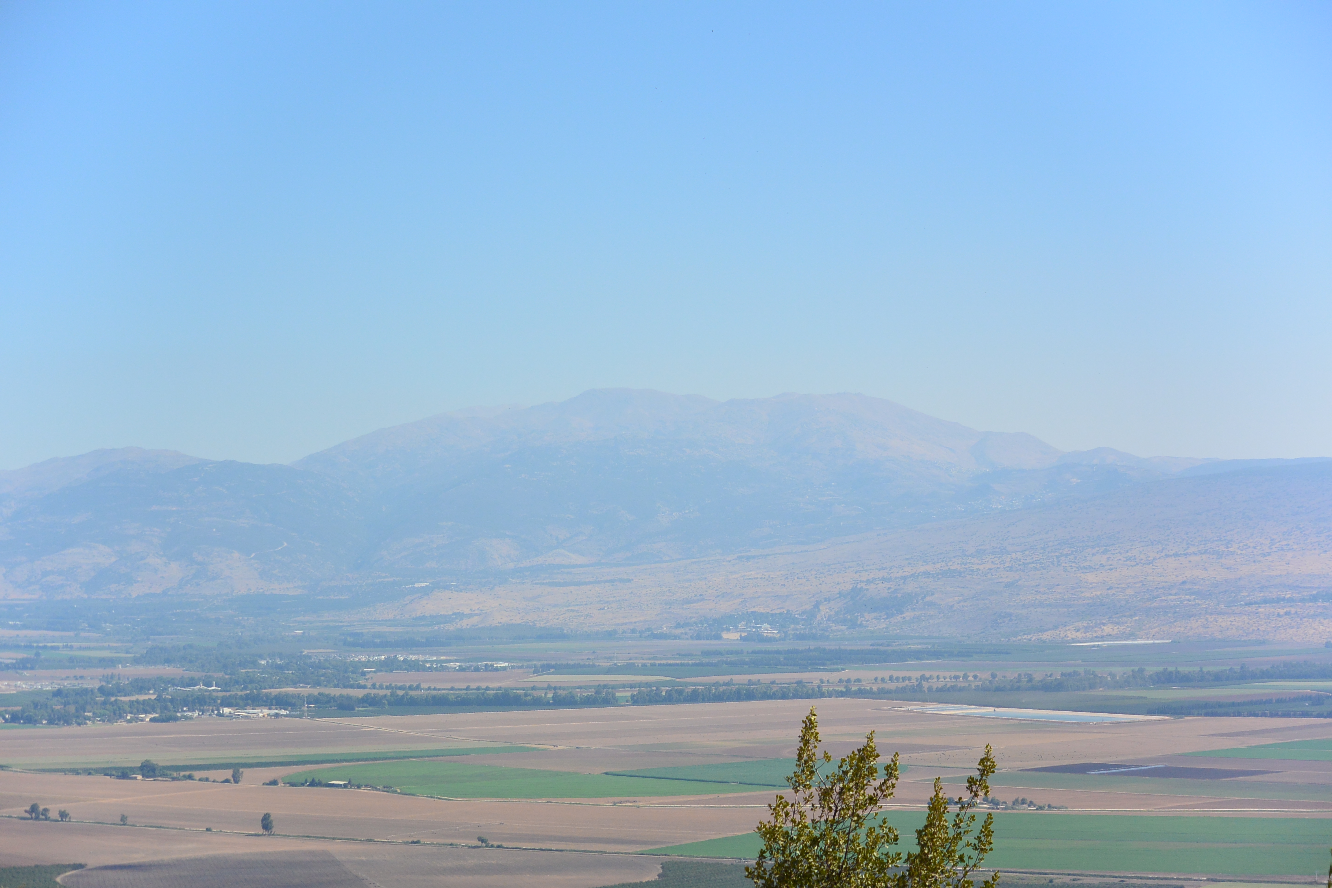 View from Agamenon Hula lookout to Mount Hermon in 43 km distance.